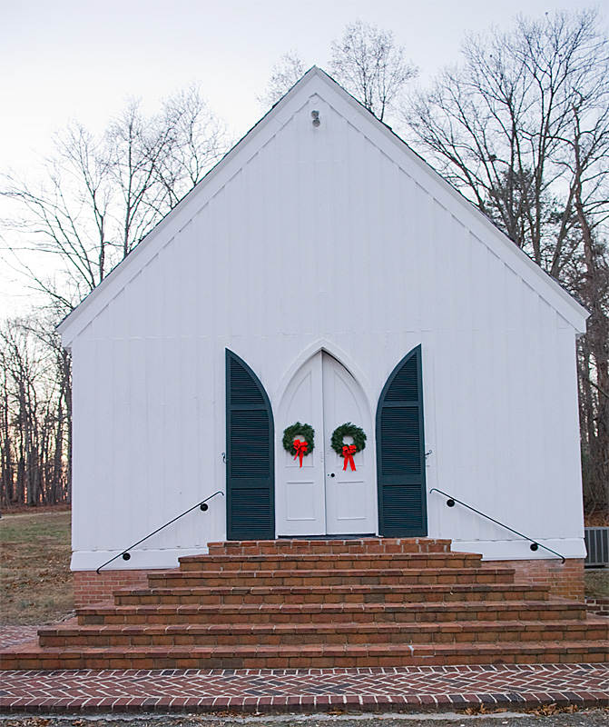 Bremo Slave Chapel, originally built on the Bremo Plantation in 1835, and moved around 1884 to its present location at Bremo Bluff, Virginia, USA.